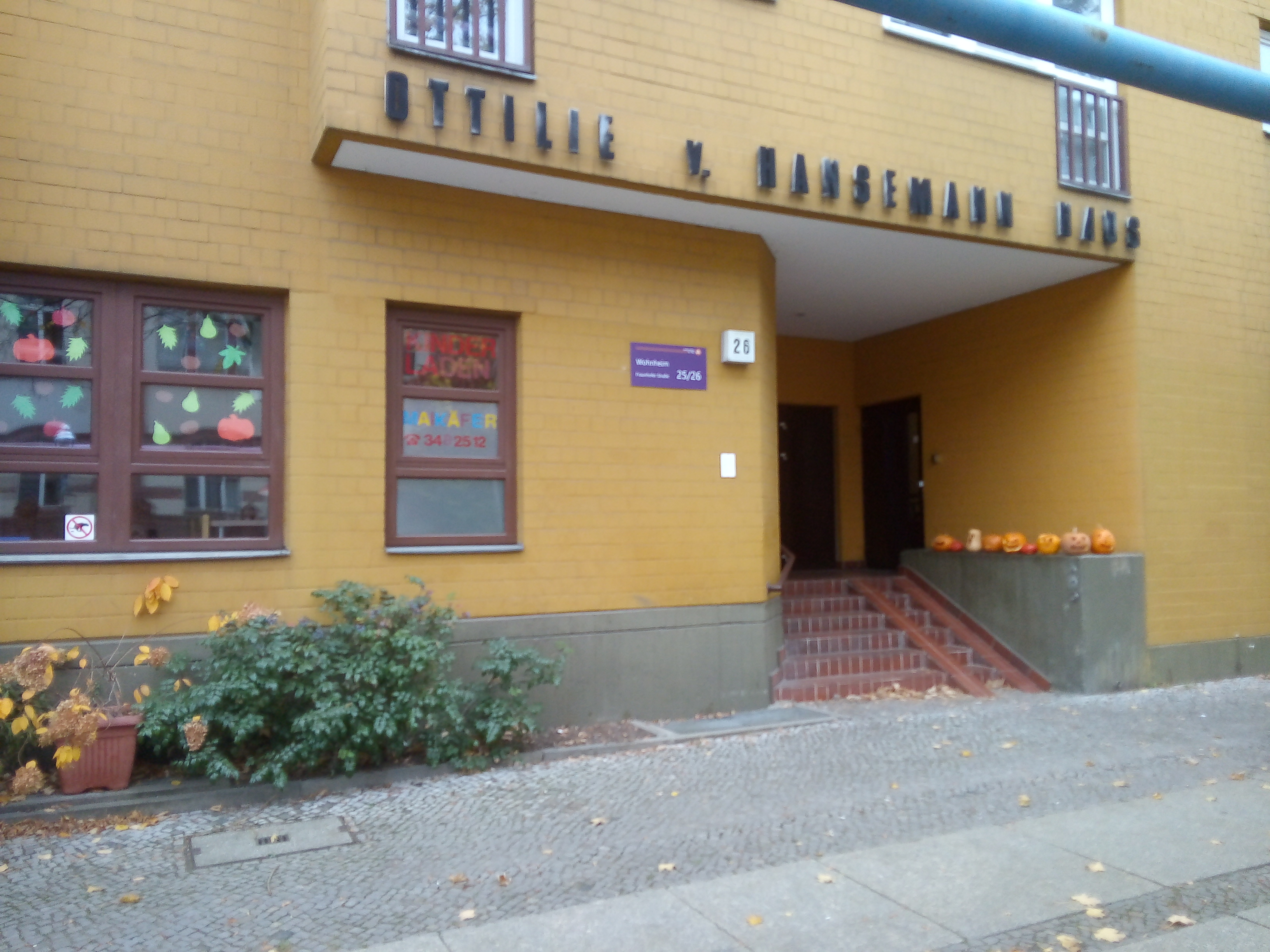 Entrance of the dormitory in Fraunhofer Straße with the enscription "Otilie von Hansemann Haus". Flats in the house are only rented out to female students and young families in which both parents still study.